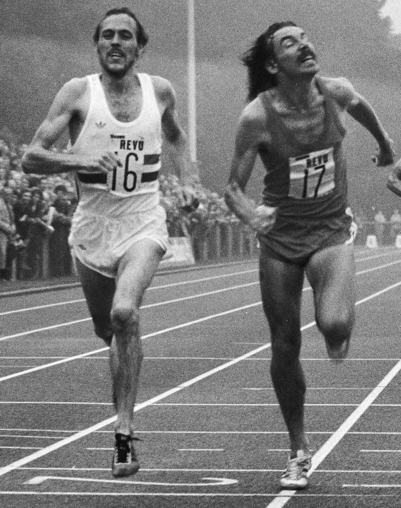 Dick Quax (centre) in Nijmegen